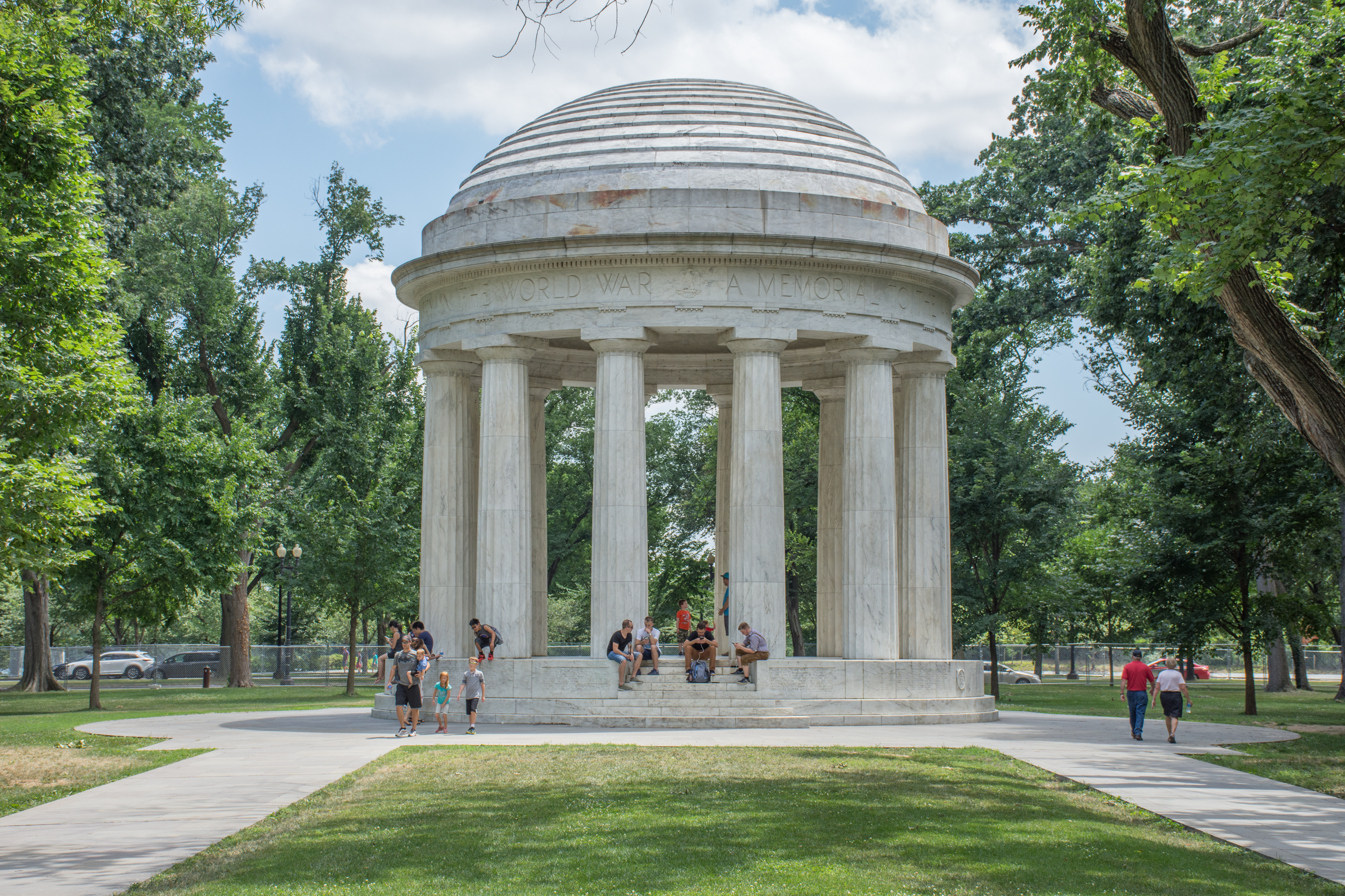 The District of Columbia War Memorial in Washington, D.C., July 2017.